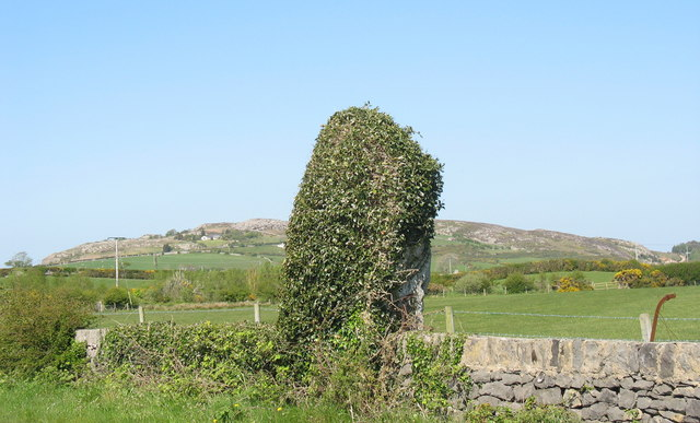 Maen Hir Maenaddwyn Menhir A 'menhir' an anglicised form of the Welsh 'Maen Hir' (lit. long stone)dates back to the Bronze Age and possibly marks the site of a burial. It is this 10' high stone which gives Maenaddwyn its name (maen = stone + Addwyn a personal name). Who Addwyn was is not recorded.